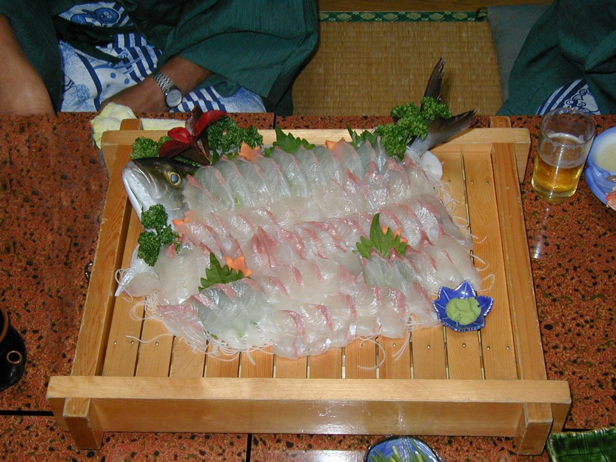 a SASHIMI dish of yellow tail amberjack; :ja:ヒラマサの姿造り